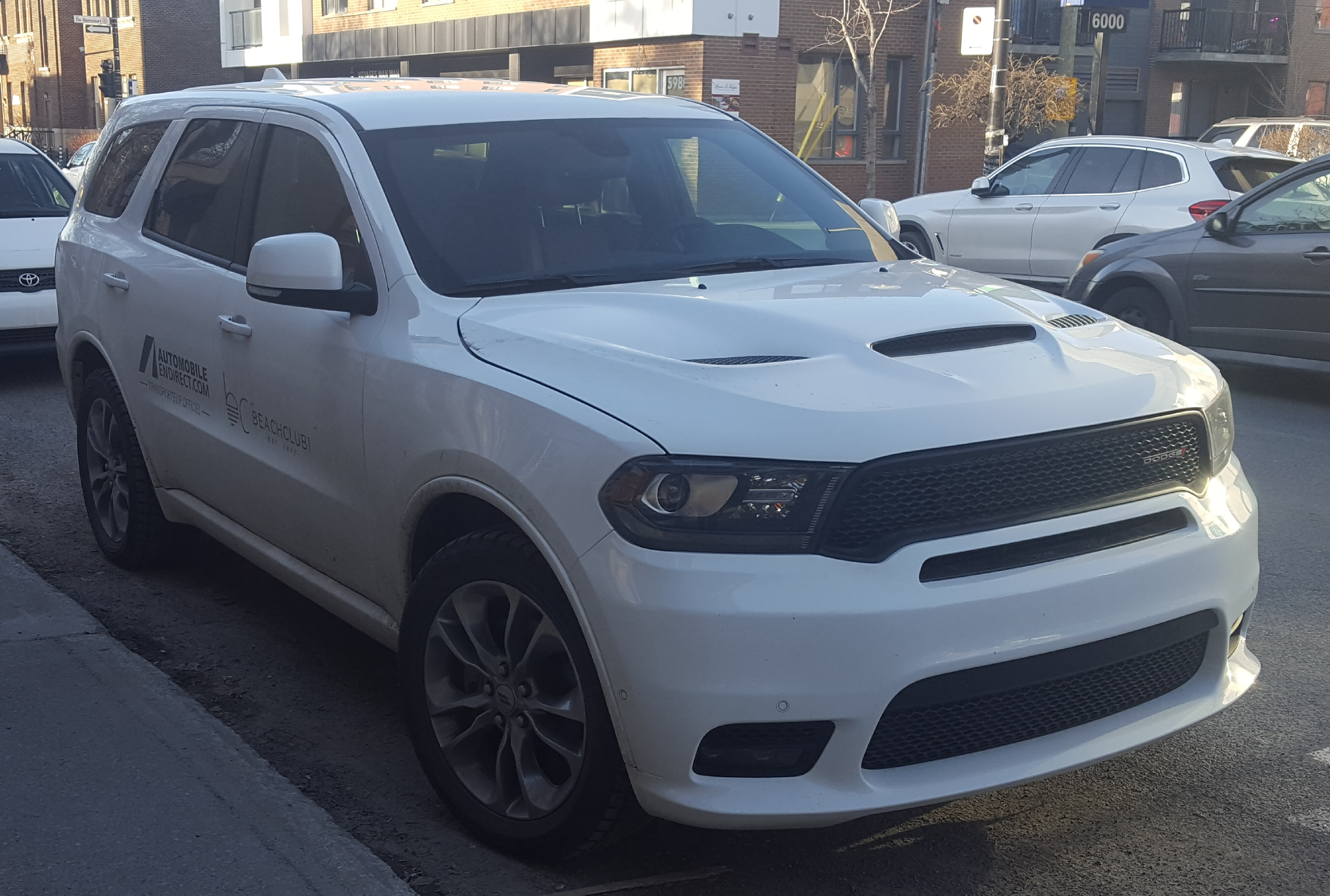 2018-present Dodge Durango SRT-8 photographed in Montréal, Québec, Canada with a logo of Beachclub.